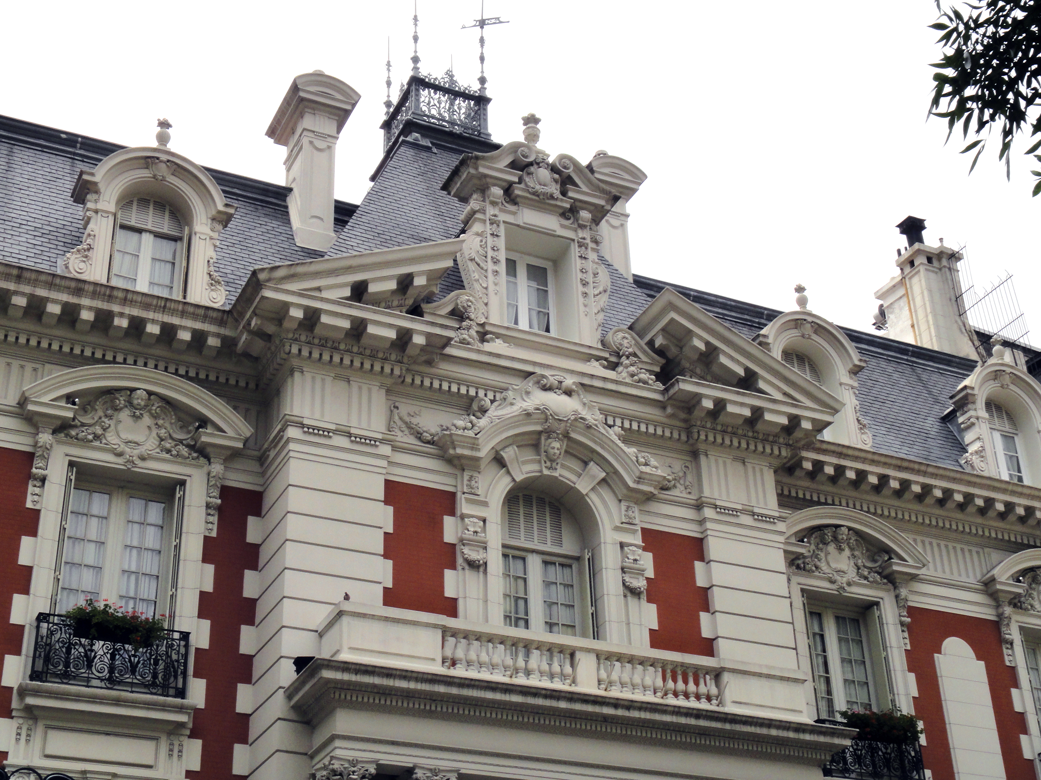 Álzaga Unzué Palace, part of the Four Seasons Hotel in Buenos Aires